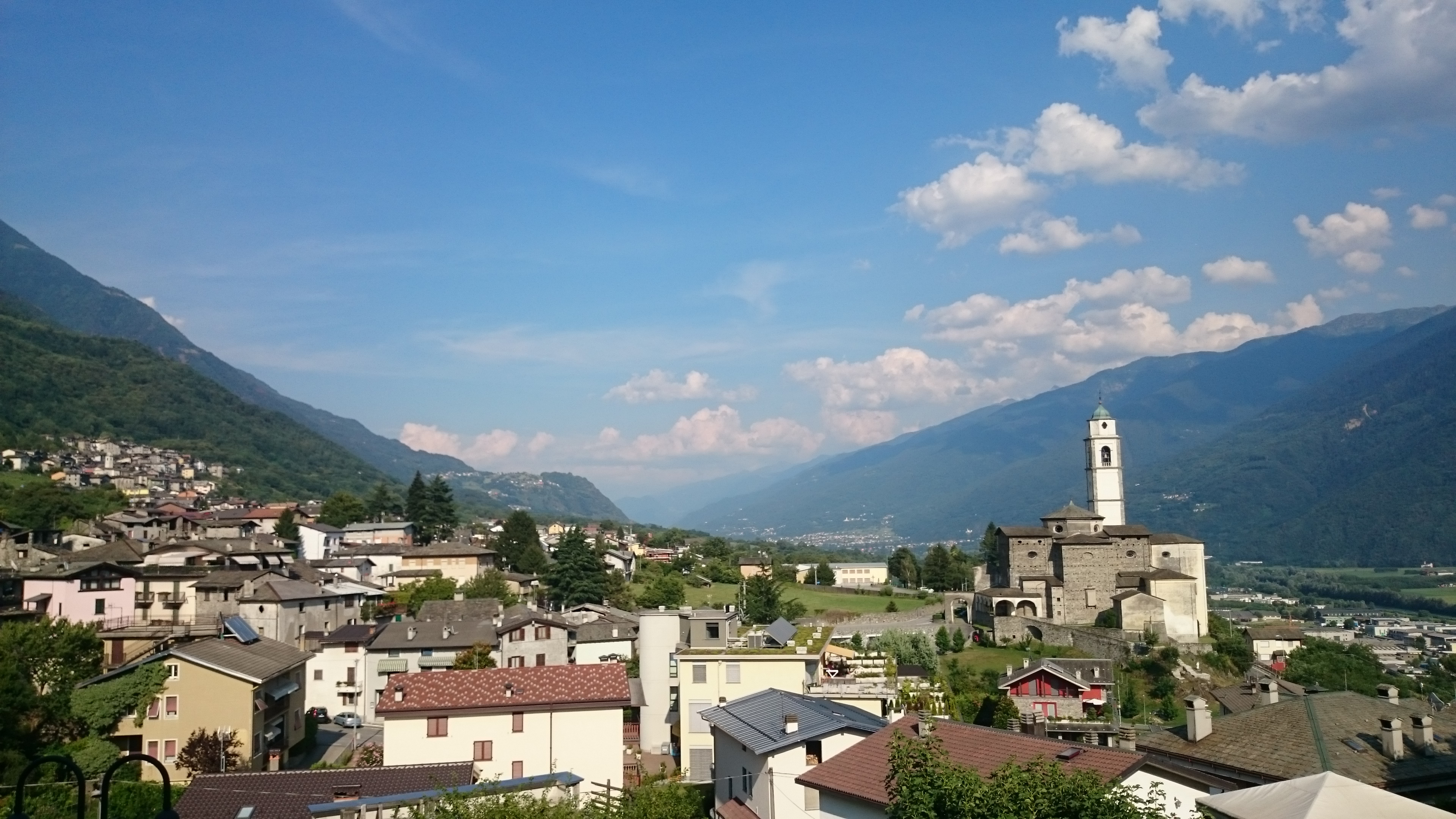 Berbenno di Valtellina is a town in province of Bergamo, Lombardy, Italy